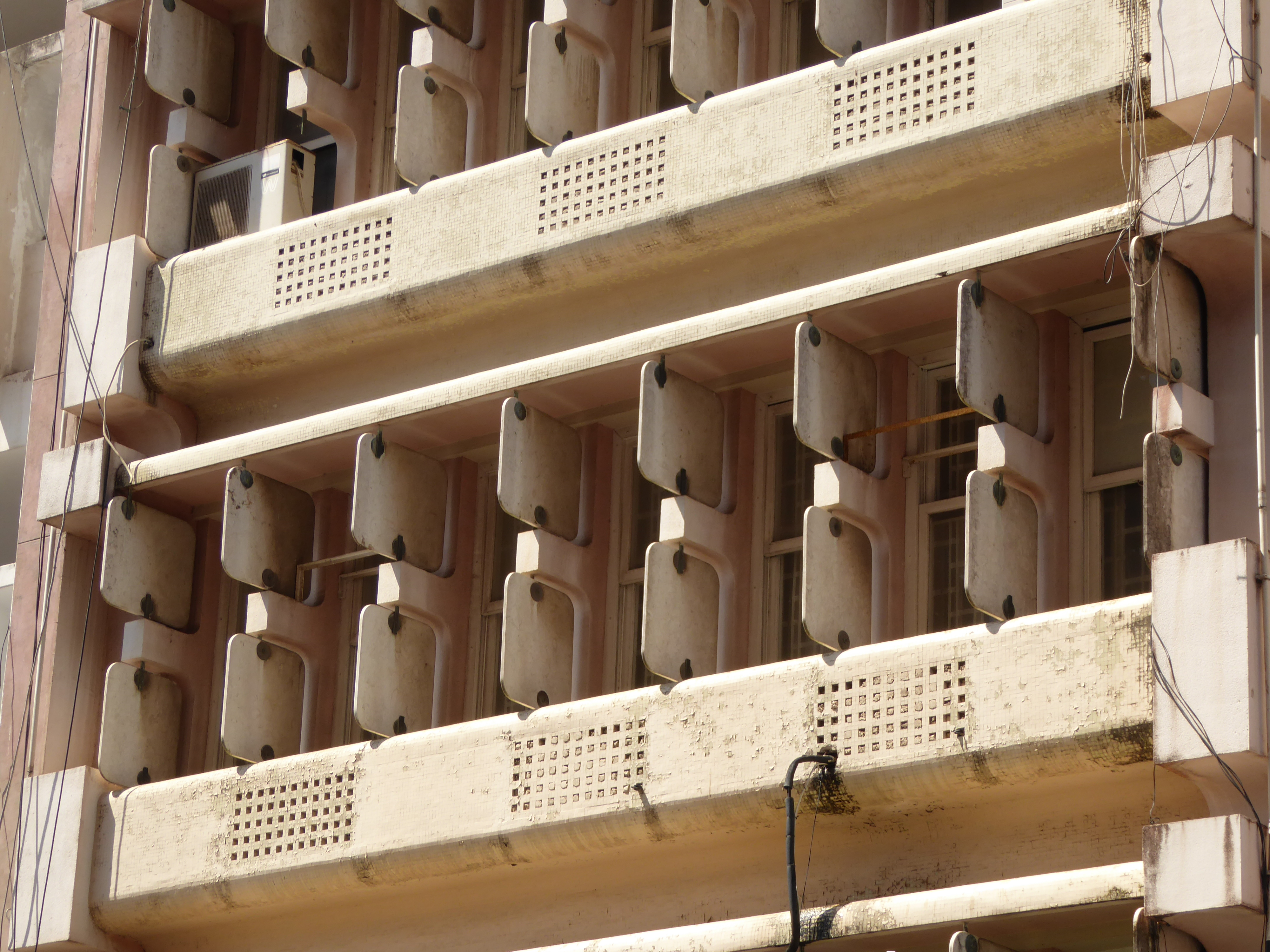 Brise soleils at the Octávio Lobo building, Maputo, Moçambique